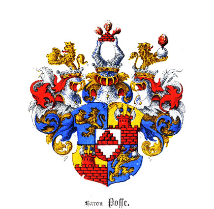 Coat of arms of Baron Posse family